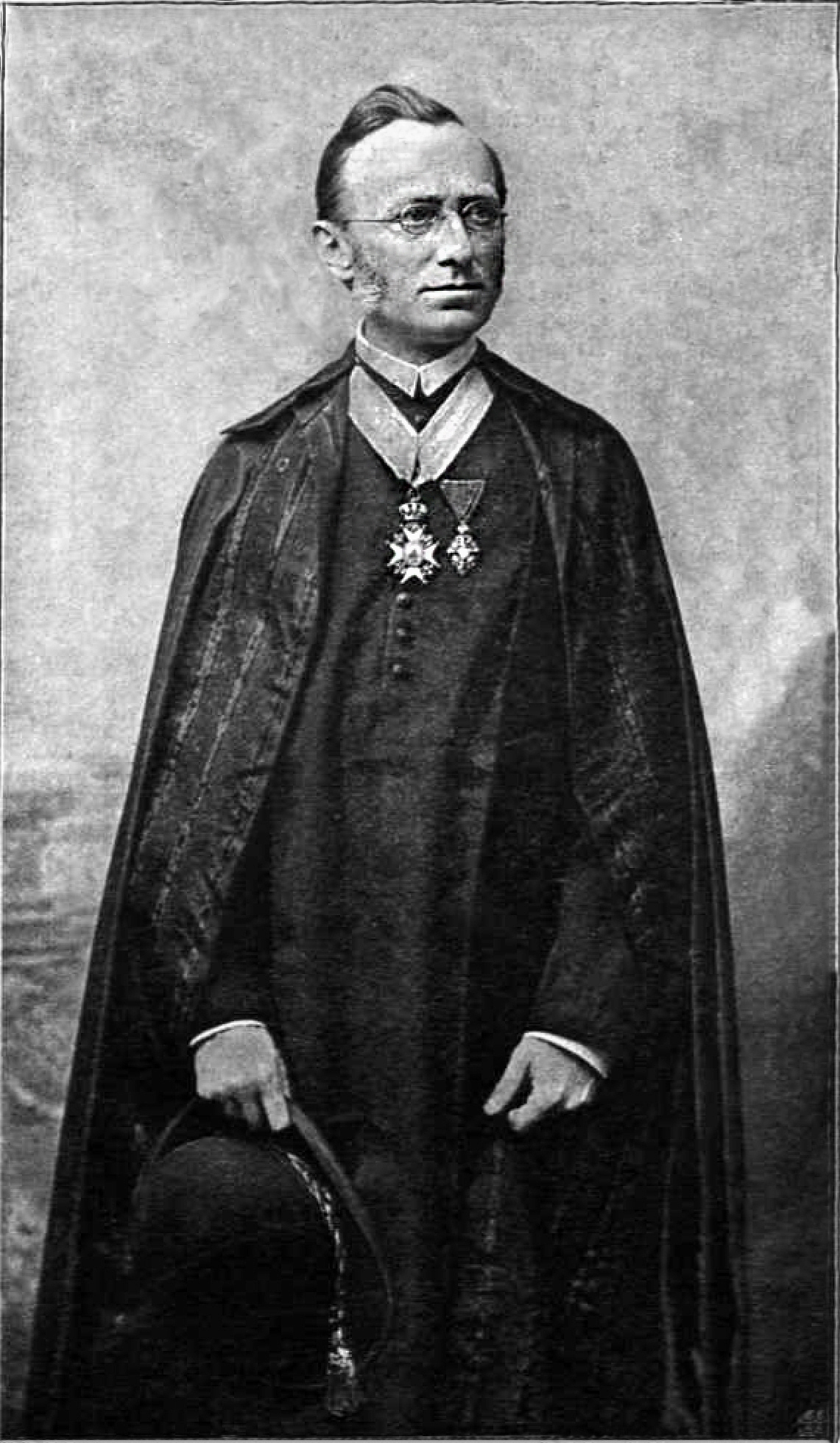 Kálmán Fehér Ipoly